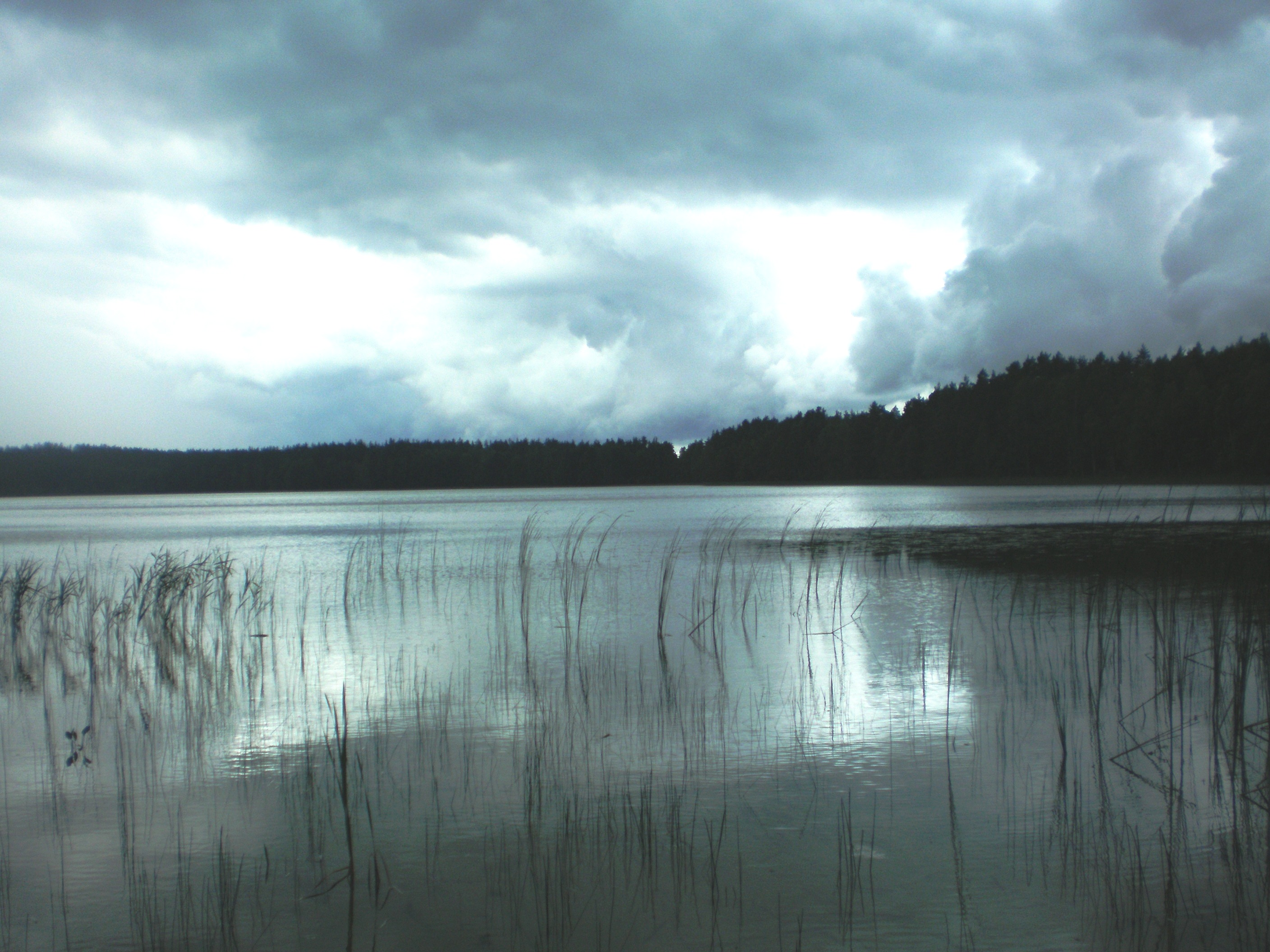 Joskutis Lake, Ignalina district, Lithuania